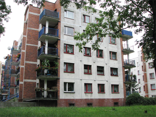 Józefa Ryszki Street in Chorzów Klimzowiec, Poland